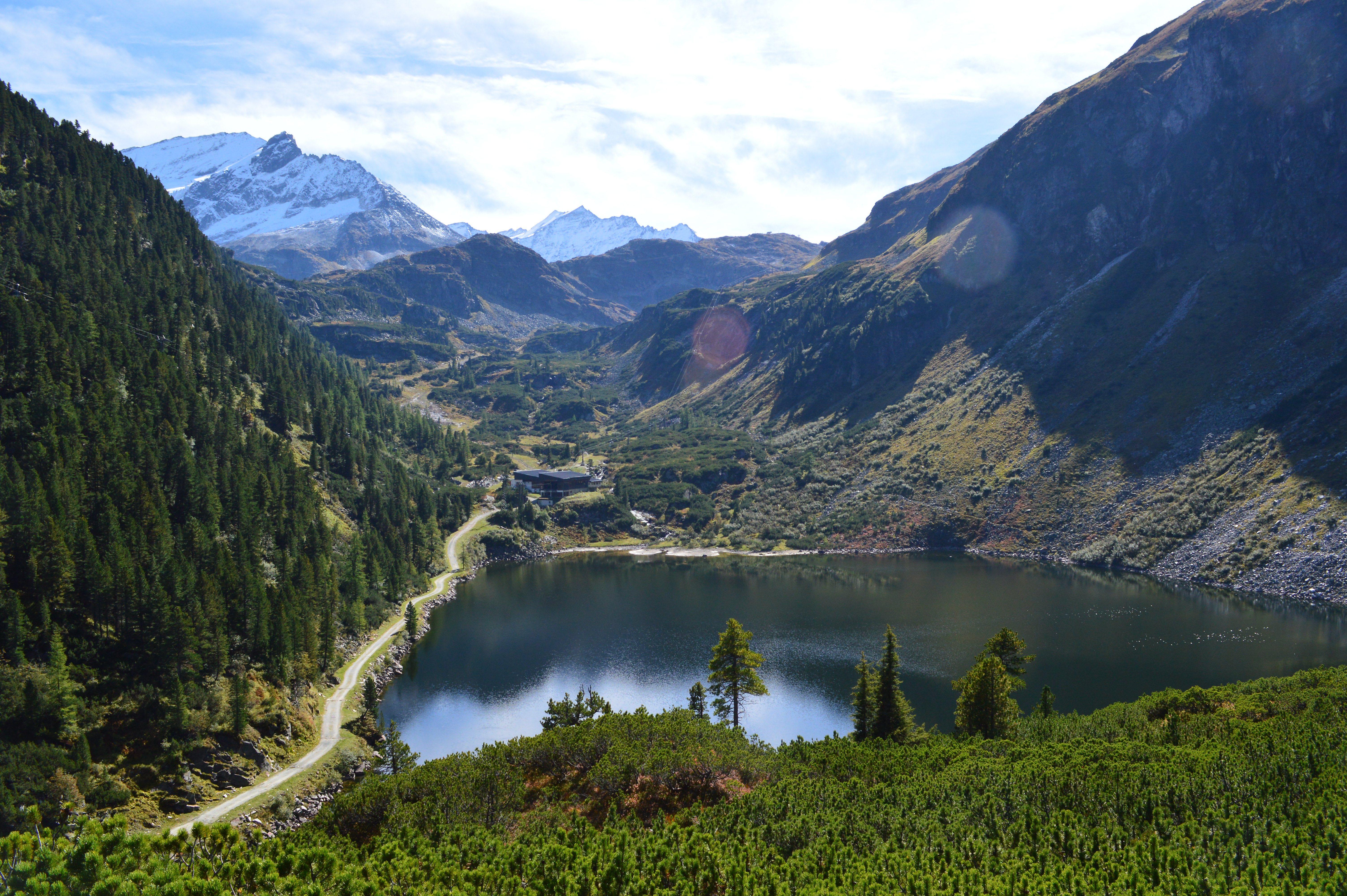 Wiegenwald, National Park Hohe Tauern, Stubach valley, Uttendorf, Salzburg (state), Austria.